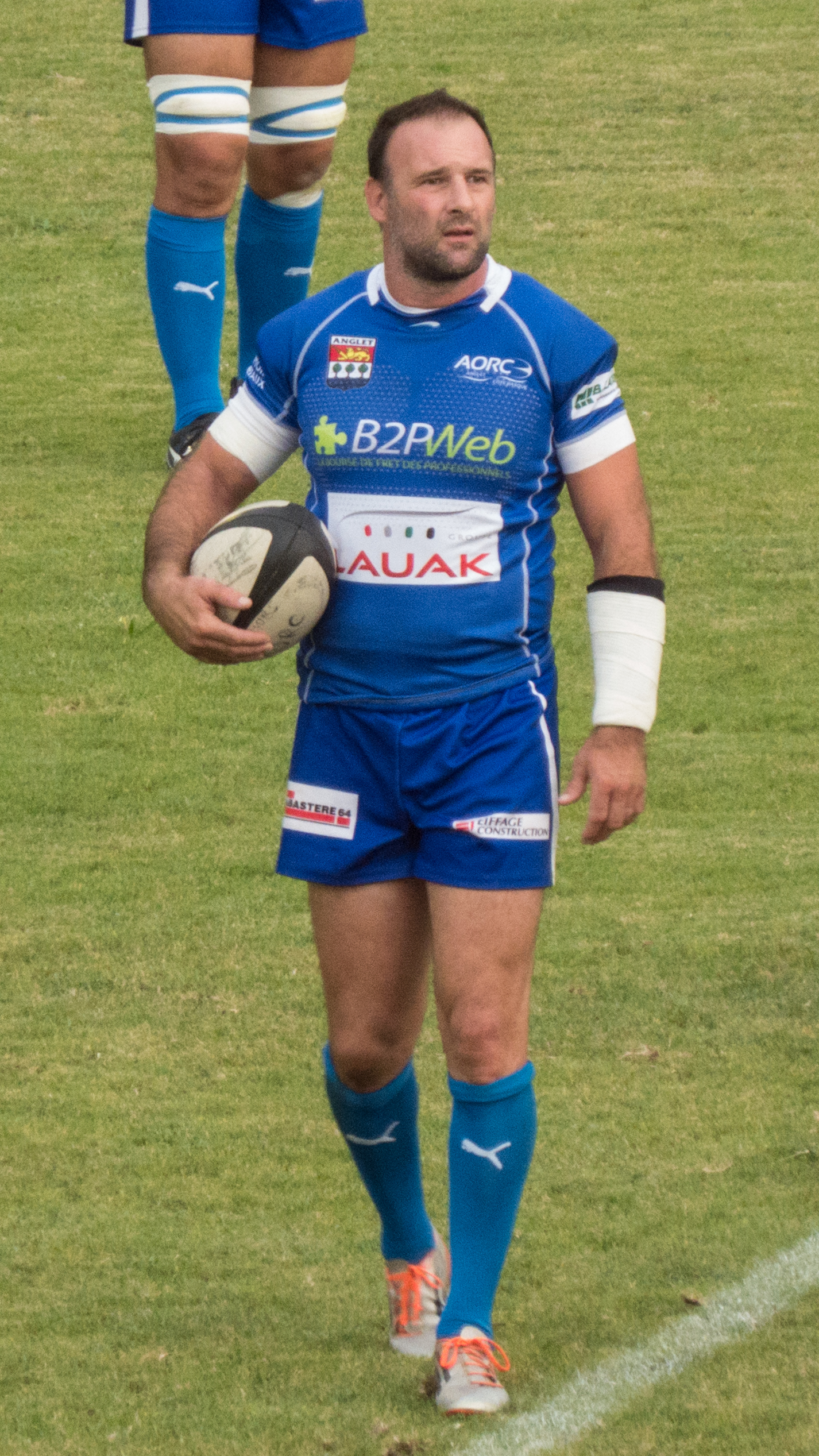 rugby union friendly match — 24 August 2018, Stade Saint-Jean. Match between: Q21007935 — US Dax